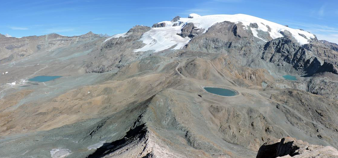 Colle superiore delle Cime Bianche (Aosta Valley) as seen from Gran Sometta